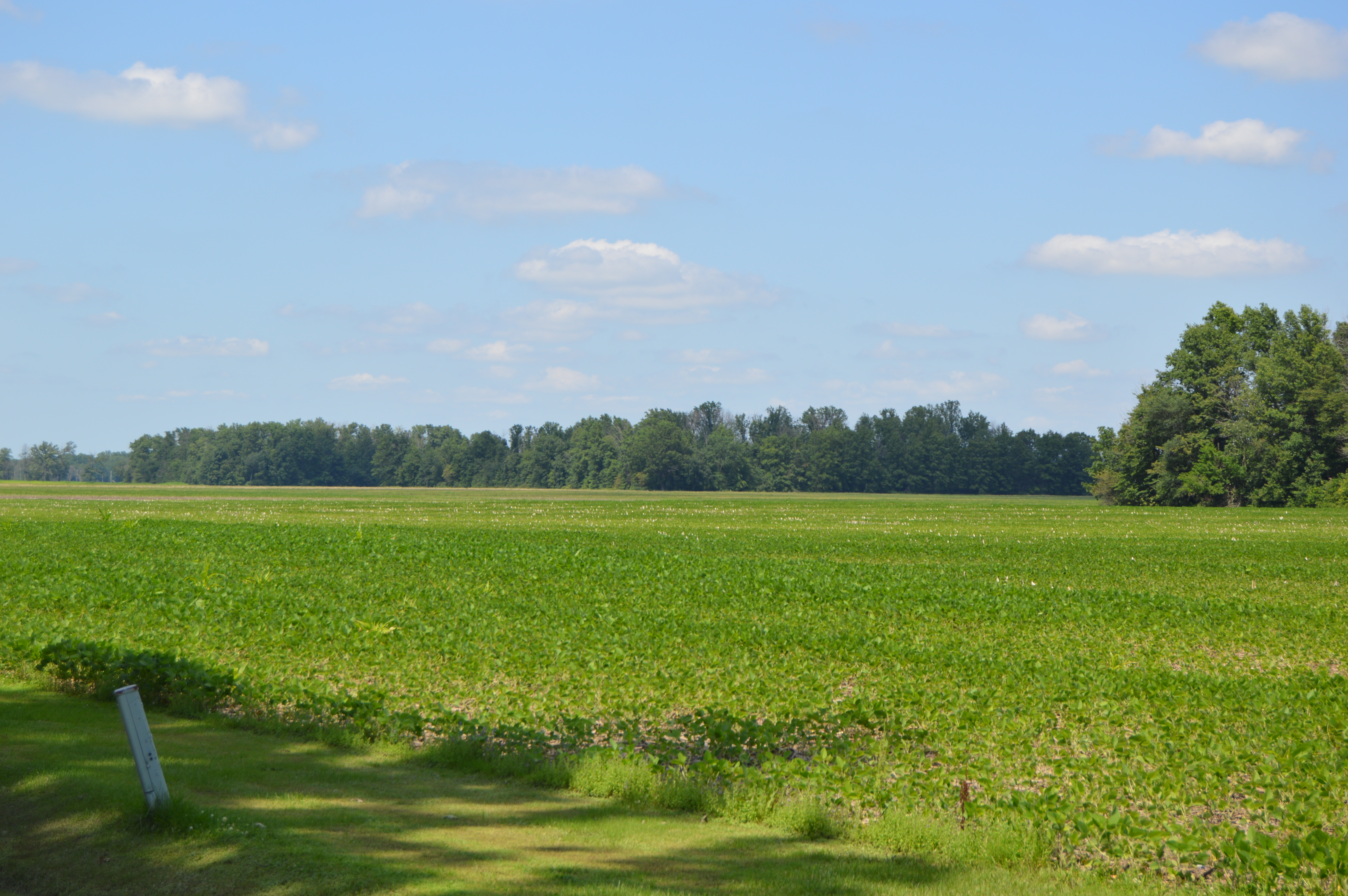 Looking northeast from Conant Road, just north of the Allentown Road intersection, across fields in Amanda Township, Allen County, Ohio, United States.